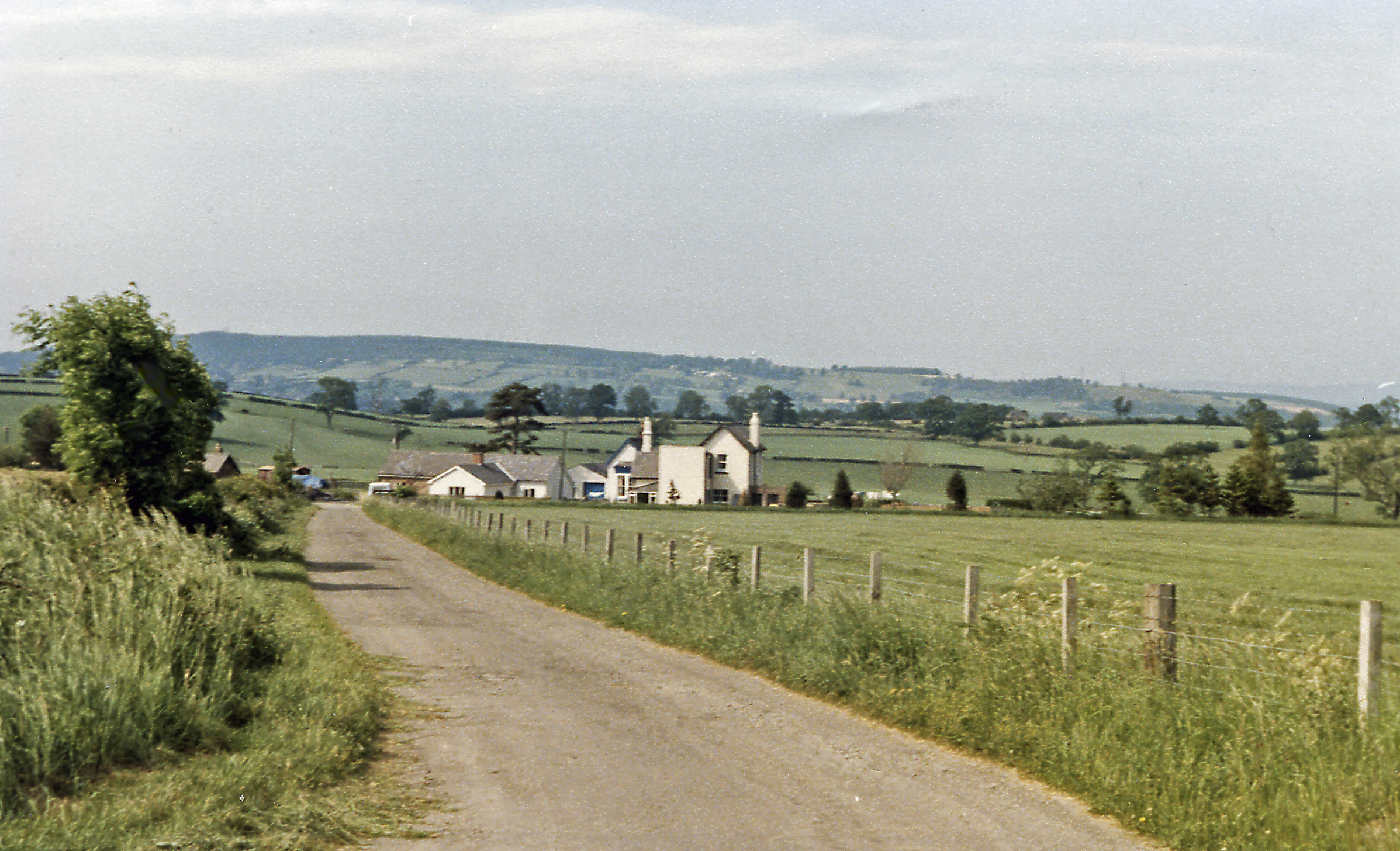 Former Clifton Moor station, View northward, along the road to the station, with Whinfell Forest (432 ft.) and Penrith Beacon (937 ft.) in the distance. The station (plain 'Clifton' until 9/27) was on the Eden Valley section of the ex-NER Stainmore Line from Darlington and Barnard Castle via Kirkby Stephen and closed from 22/1/62, to goods 6/7/64.